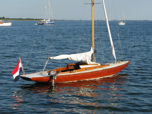 The 'Memory' a Dragon sailboat built in 1936, fitted with cabins and front hadge. Mahogany hull and cabin.